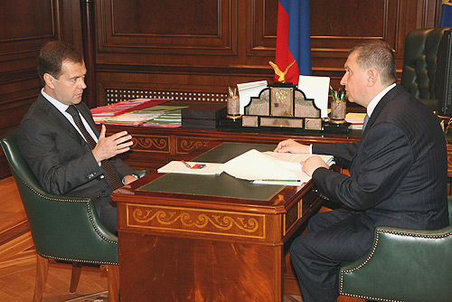 GORKI, MOSCOW REGION. With Deputy Prime Minister Igor Sechin.